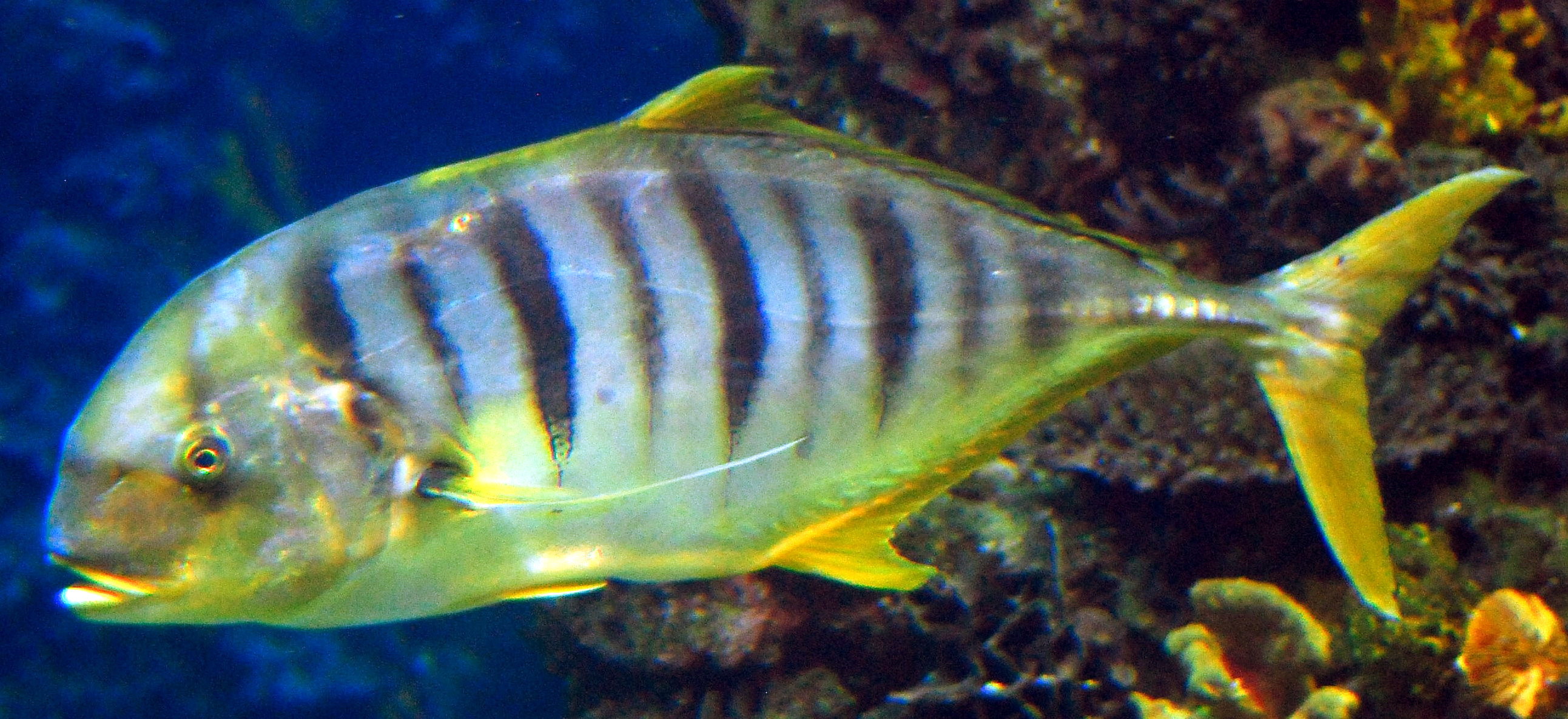 Golden trevally